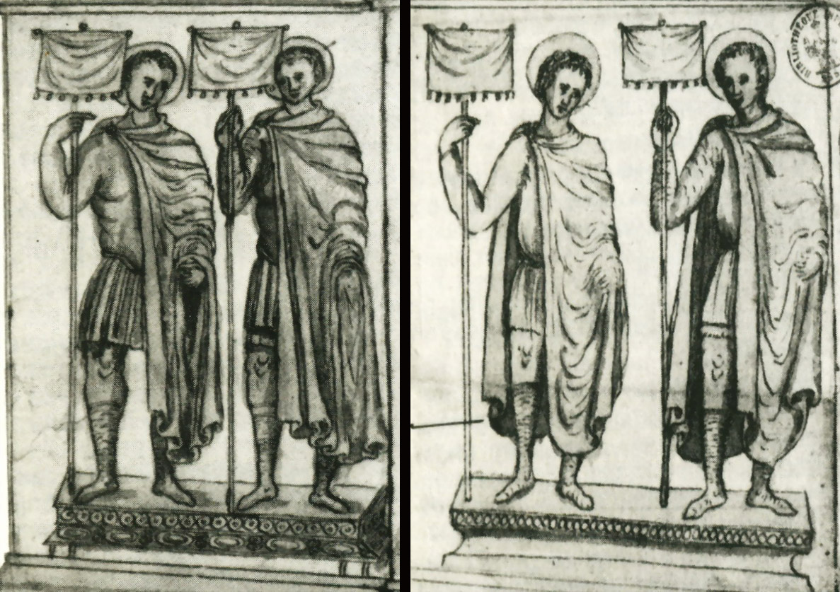 Drawing of the 'Arcus Einhardi', probably the silver foot of a crux gemmata (reliquary cross decorated with gems) formerly in the Treasury of the Basilica of Saint Servatius in Maastricht (lost since the 18th c.). Drawing by unknown artist, 17th c, now in the Bibliothèque nationale de France in Paris. Details of the two sides of the arch, depicting on each side two soldiers saints (both with nimbus) standing on a decorated podium, all four wearing traditional Roman soldier tunics and holding vexilla.